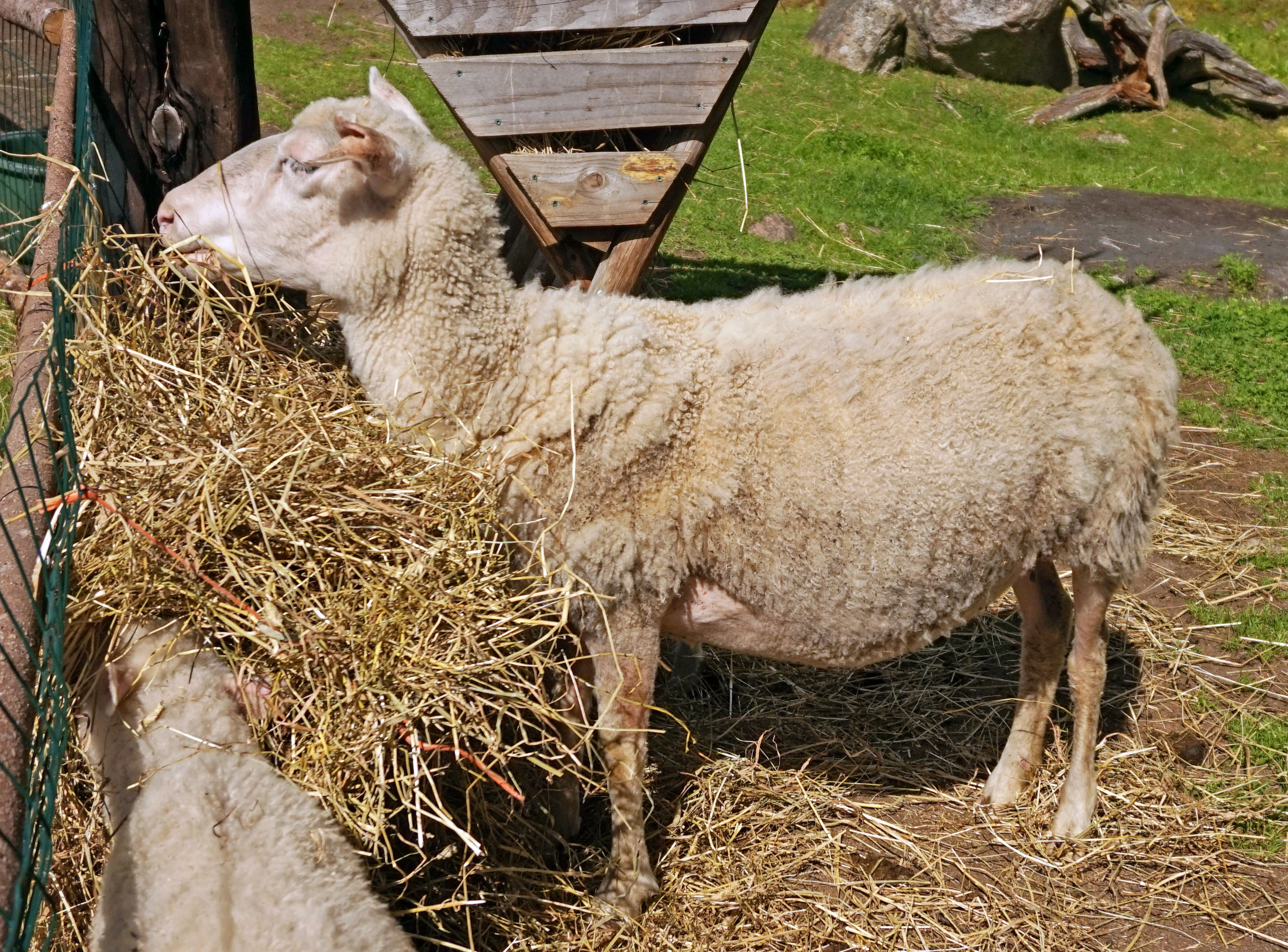 A sheep eating in Ysitien lemmikki zoo in Jyväskylä, Finland.This photograph was taken with a Sony ILCE-5000